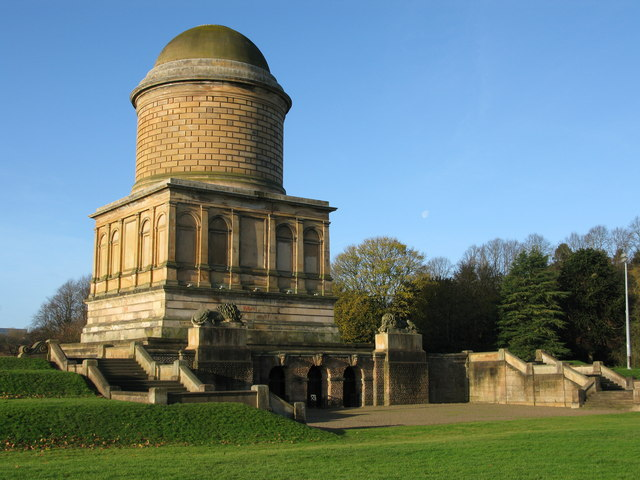 Hamilton Mausoleum A brief history of the Mausoleum can be found in Gazetteer for Scotland Website